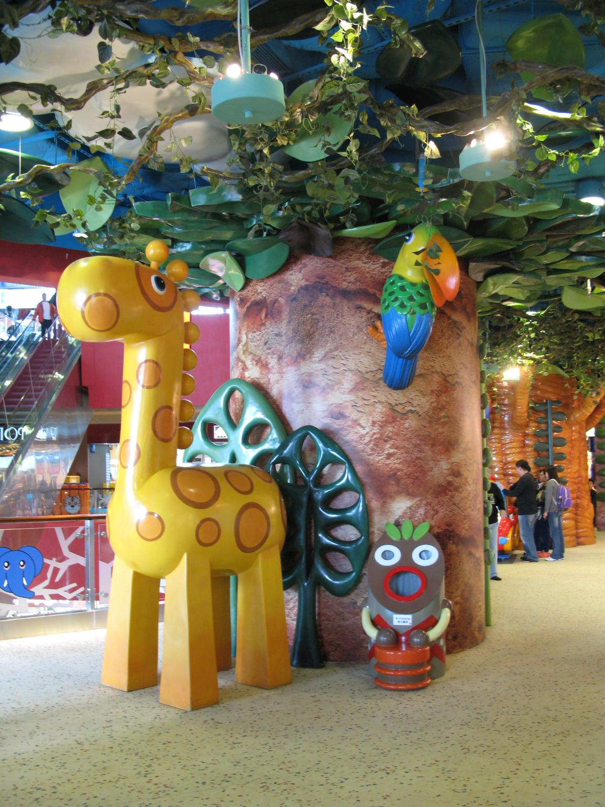 MegaBox Level 9 Decoration